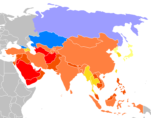 Growth of population in Asia from 1996-2001